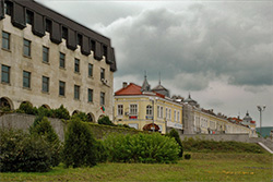 Shumen, Bulgaria